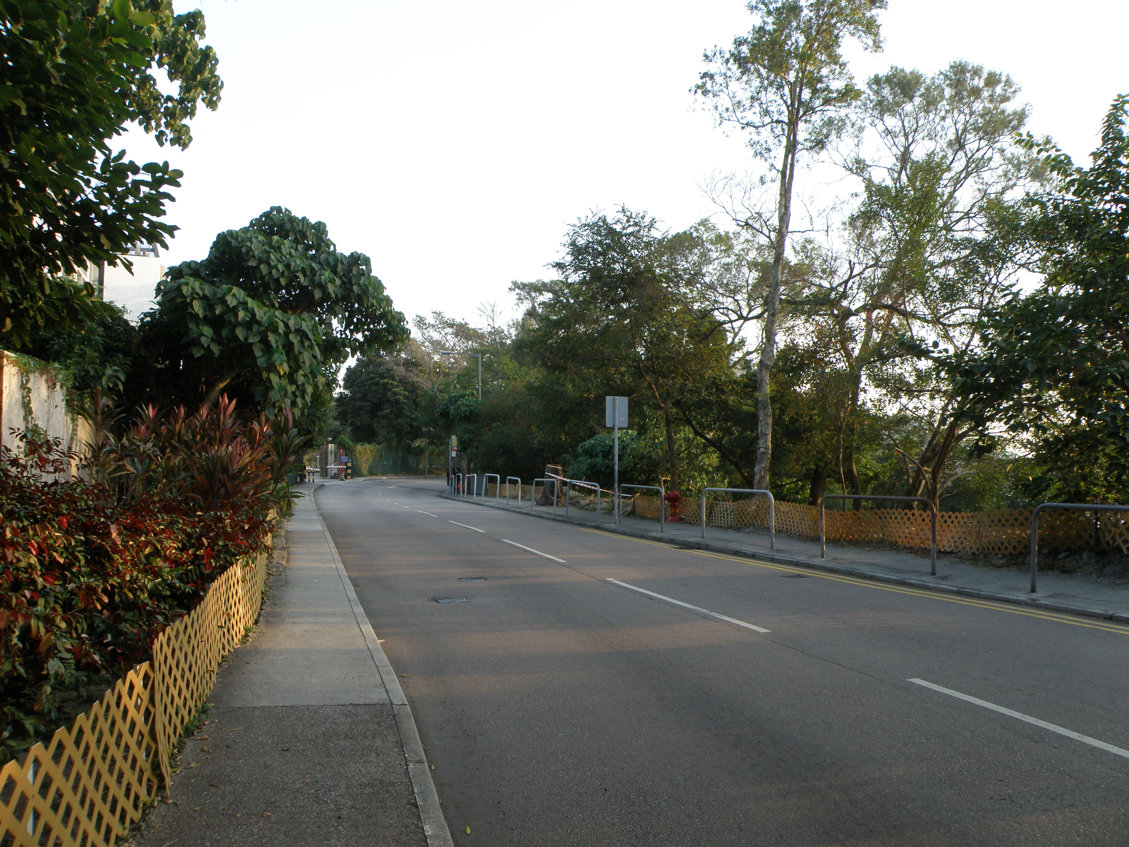 Wong Ma Kok Road in Stanley, Hong Kong.